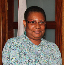 The Governor of the Seychelles Central Bank Caroline Abel and the Vice-President of Seychelles Danny Faure.